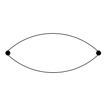 Diagram created by me. Paul August ☎ 17:04, 27 June 2006 (UTC)